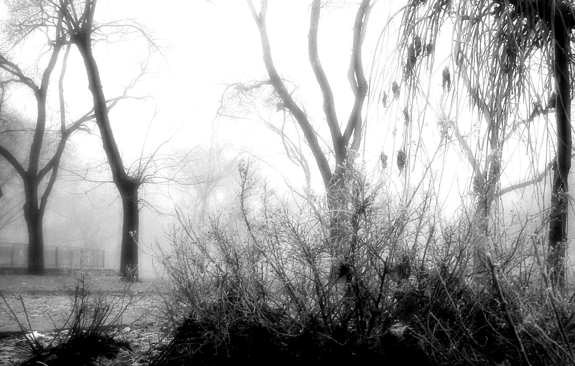 Kálvária square, Budapest